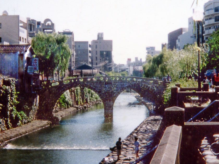 Megane bridge in 1999 (cropped version)